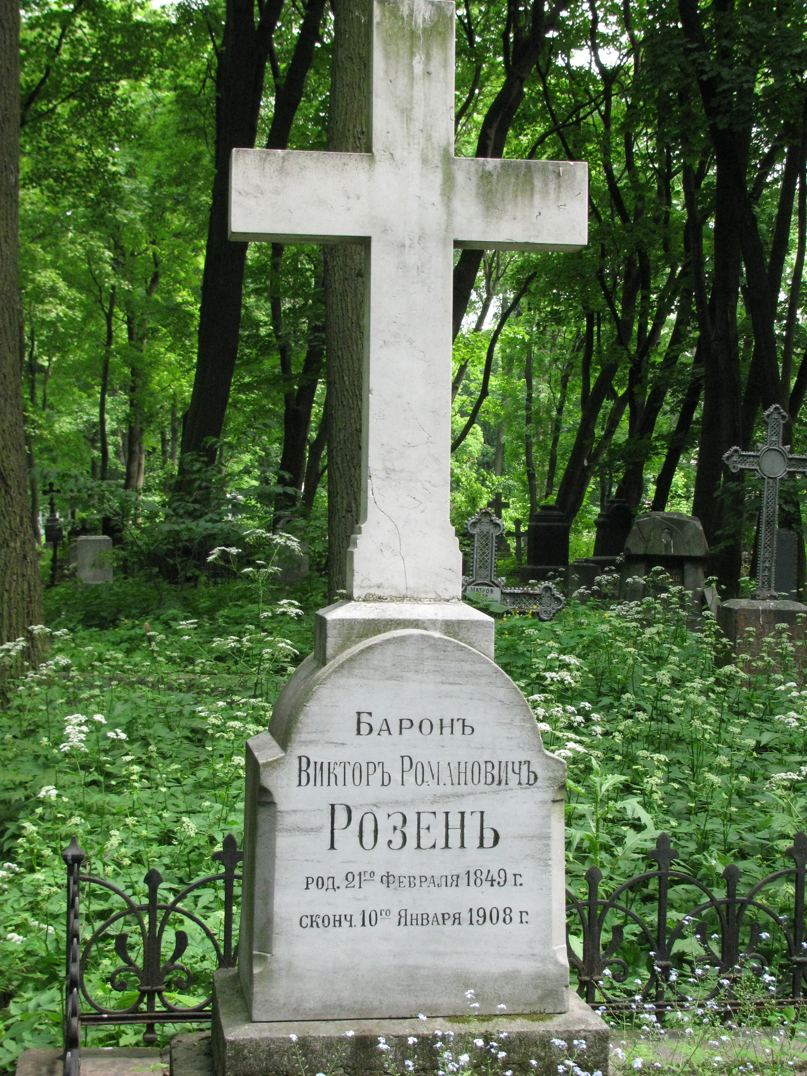 Grave of Victor Rosen in Novodevichy Cemetery, Saint-Petersburg, Russia